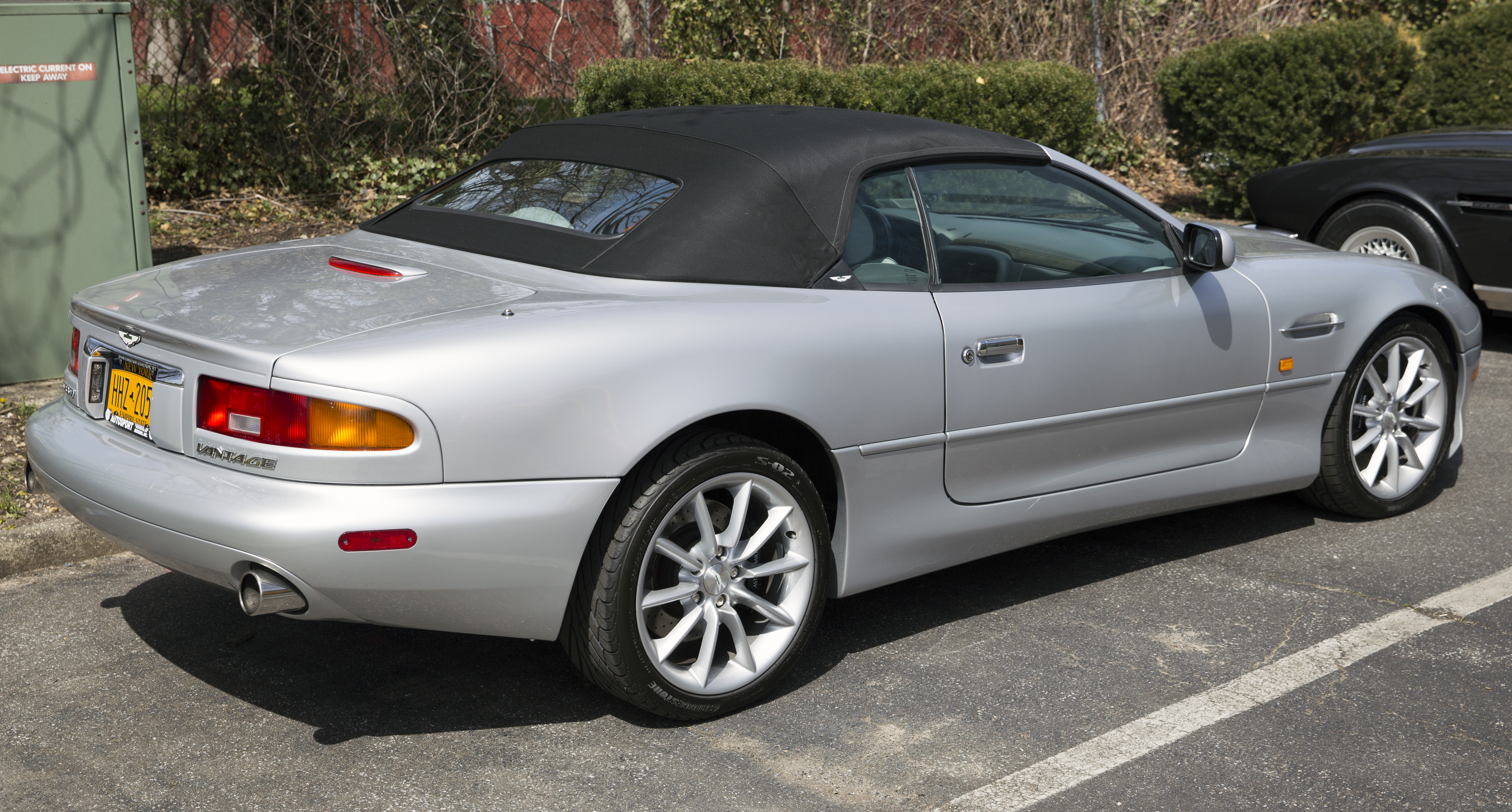 A silver 2002 Aston Martin DB7 Vantage Volante, seen at Autosport Designs in Huntington, Long Island, NY. And it's a six-speed manual!